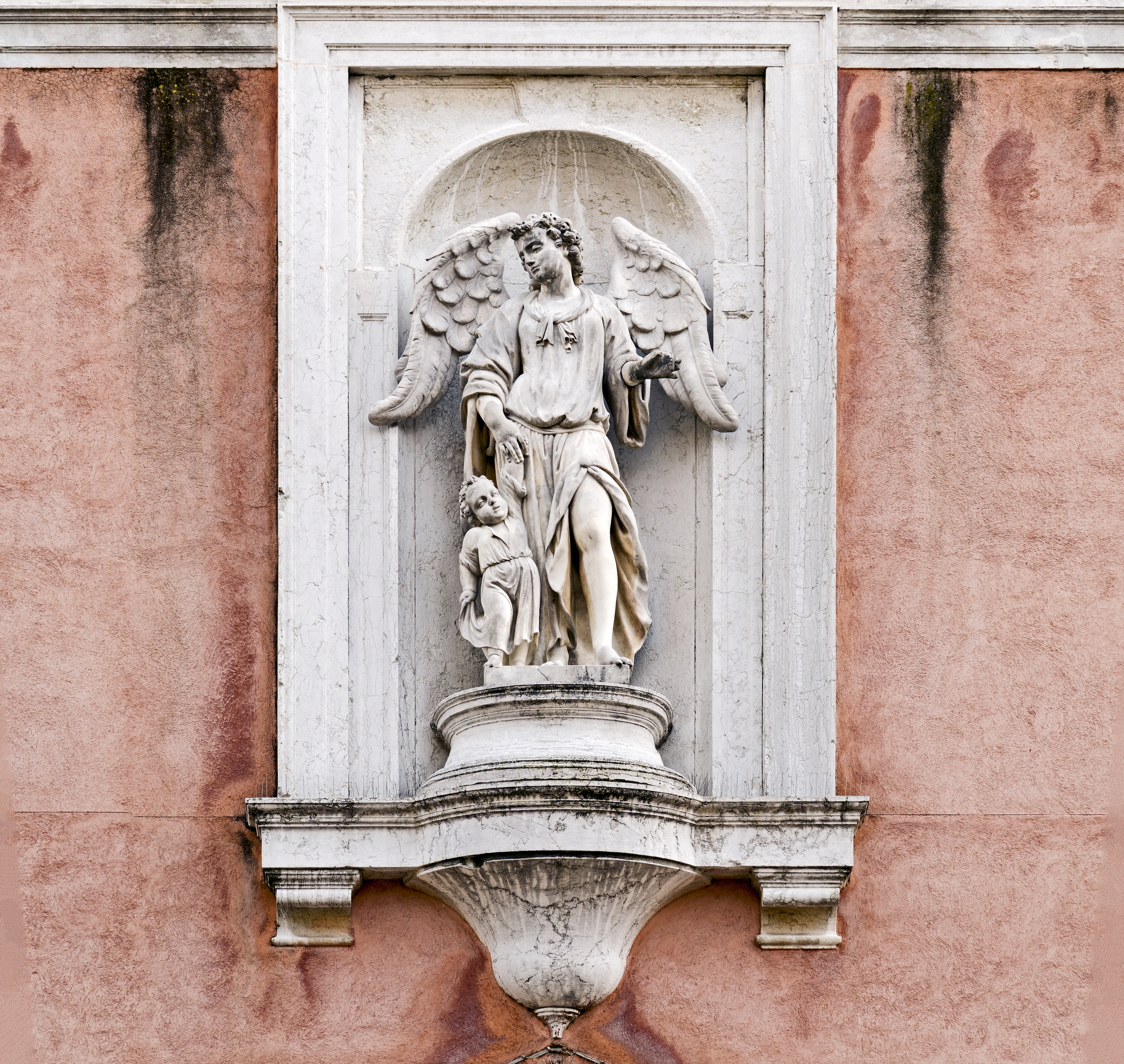 The "Scola dell'Angelo Custode" in Venice, built in 1713 on a project by Andrea Tirali in "Campo Santi Apostoli" square, serving as the Evangelical Lutheran Church of Venice (Chiesa Luterana di Venezia, aka Chiesa Evangelica Alemanna) since 1813. Heinrich Meyring, Guardian angel.